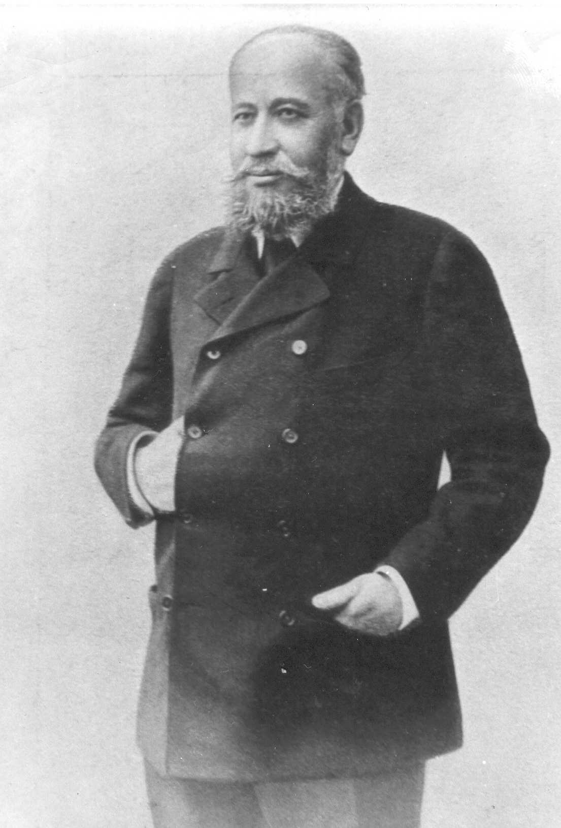 Lazar Brodsky (1848-1904) - sugar industrialist, mecenate